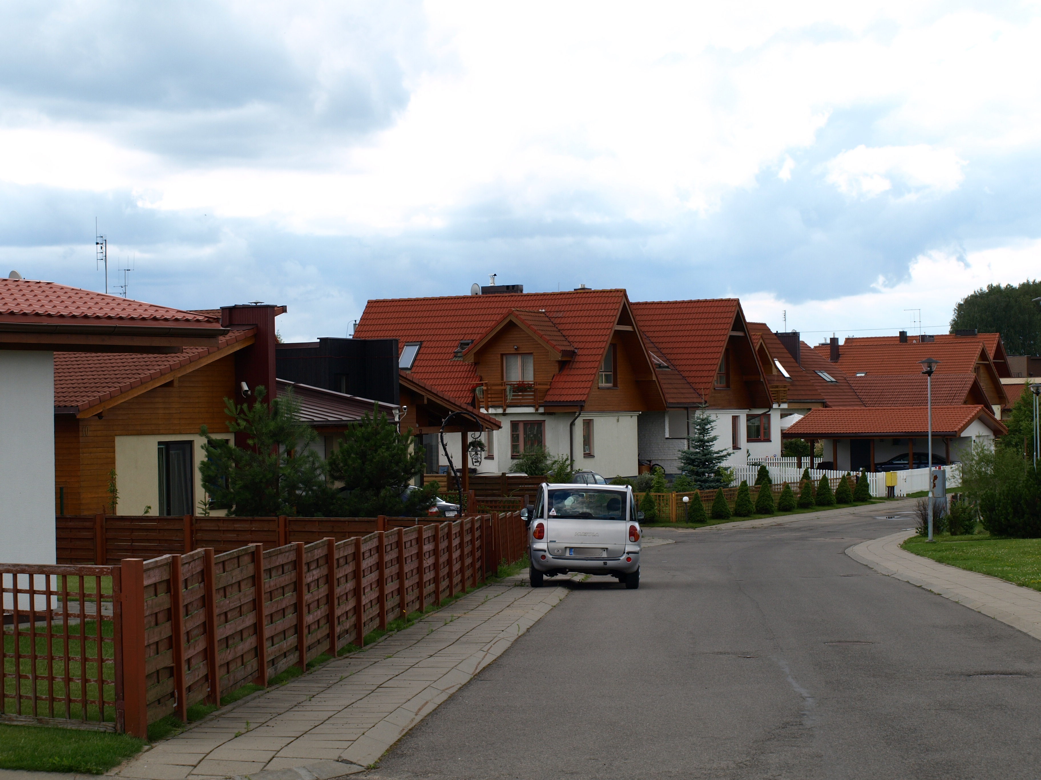 Bendoriai settlement, Vilnius district municipality, 2012 06